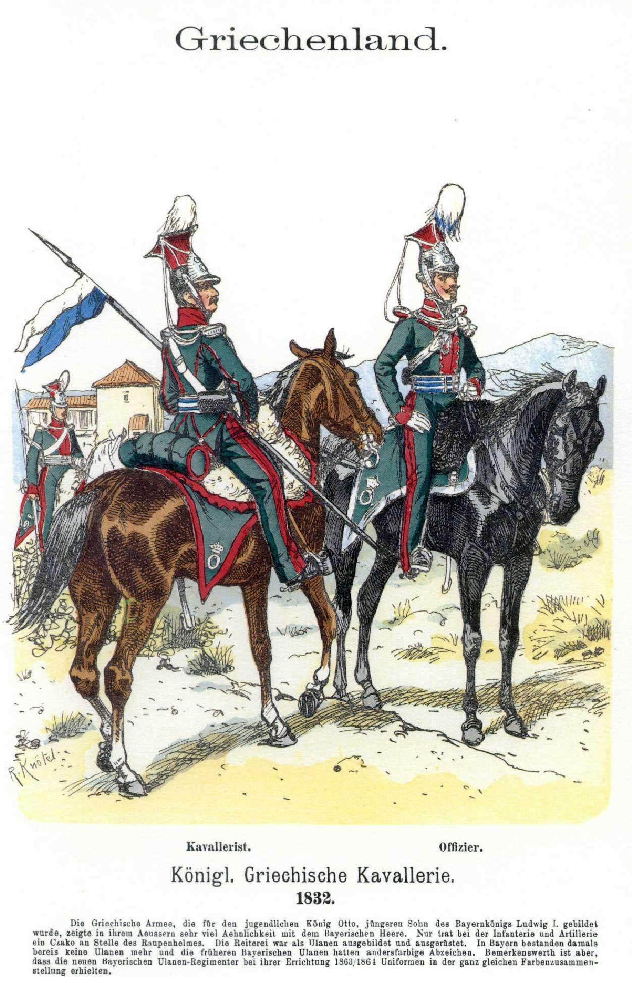 Cavalrymen (lancers) of the Hellenic Army in the first years of the reign of King Otto (1832-1863). L-R: trooper and officer (2nd Lieutenant).